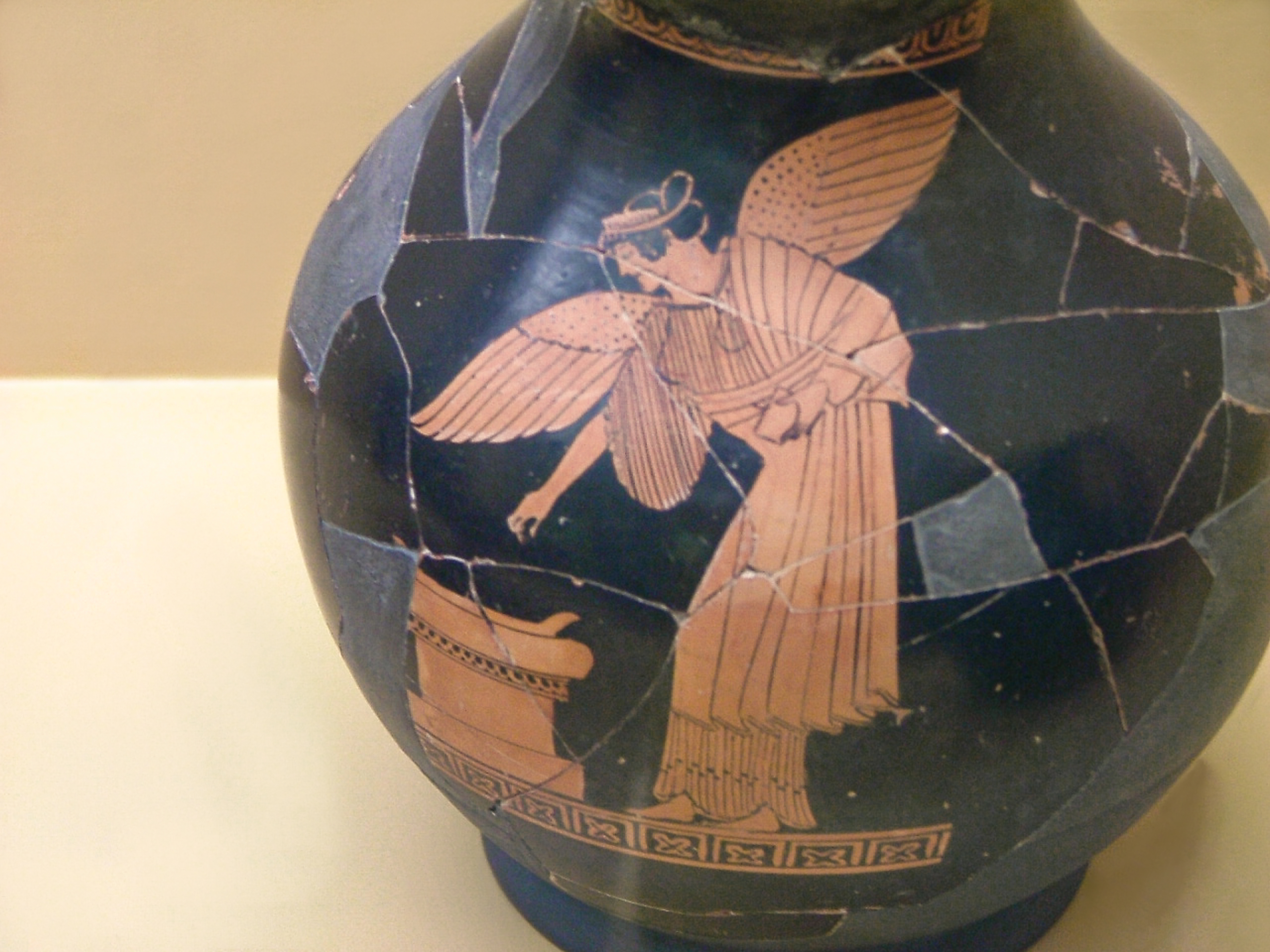 Oinochoe by the Eucharides Painter with Nike at an altar. Ca. 490-480 BC. Museum of the Ancient Agora in Athens.